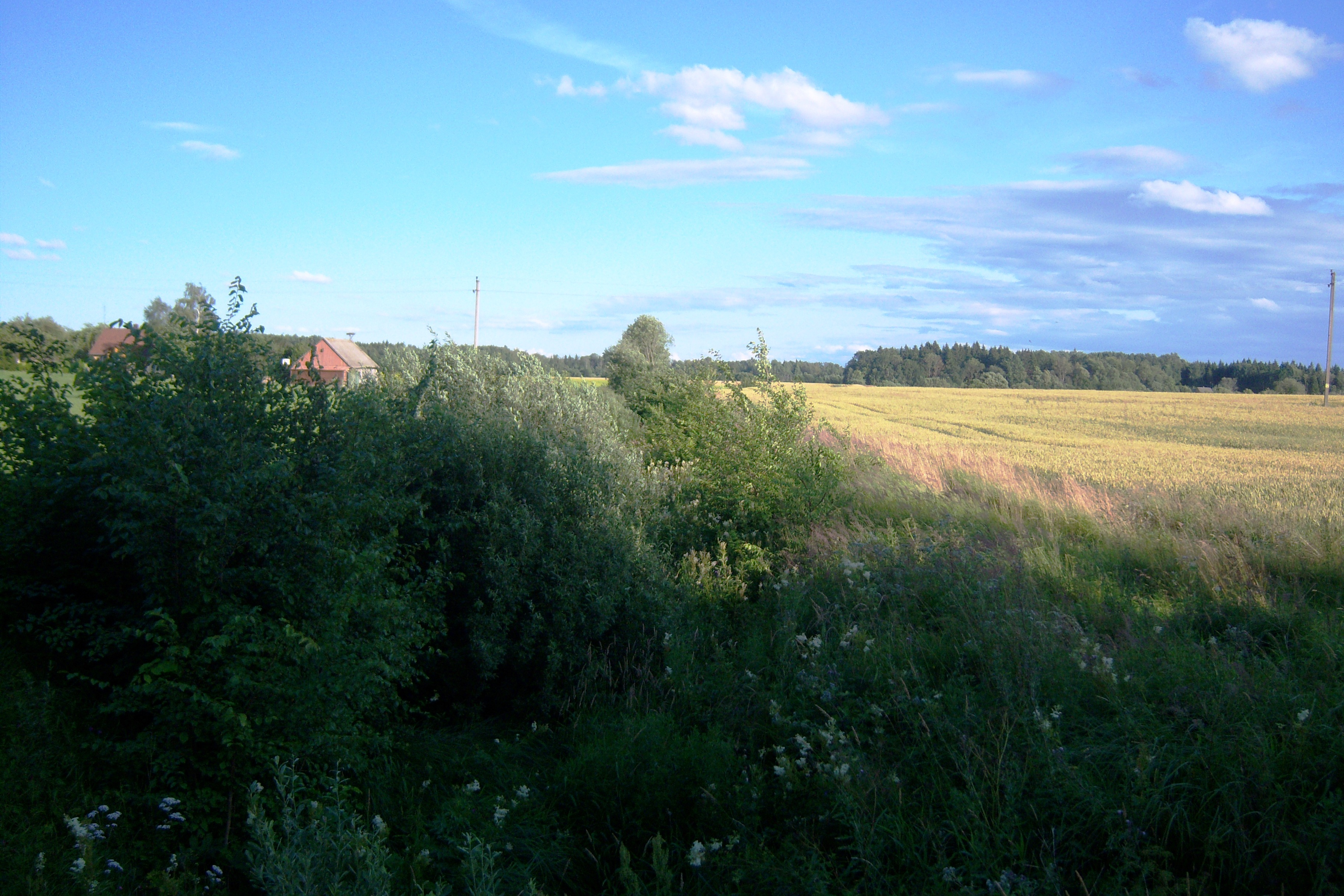 Gausantė stream in summer, Raseiniai district, Lithuania